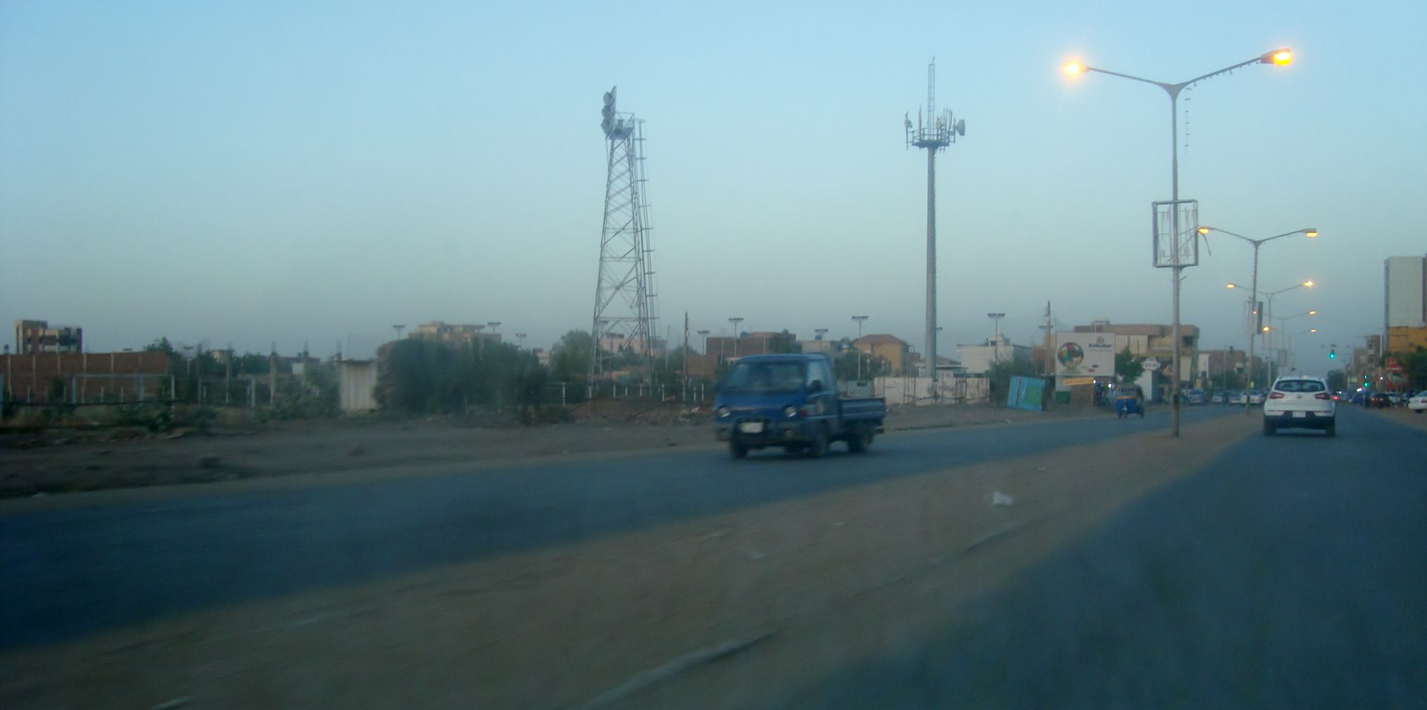 ملعب التحرير –الخرطوم بحري